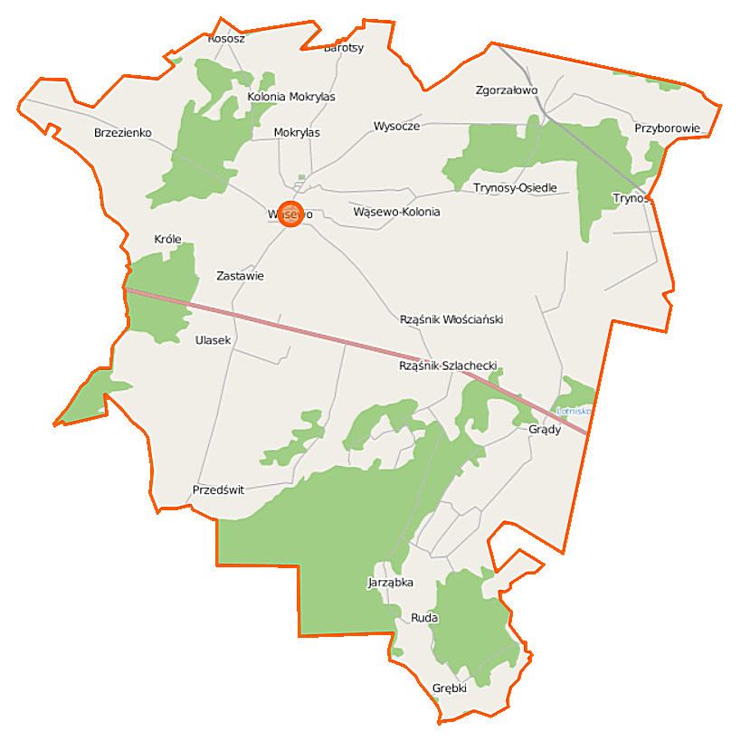 Map of Gmina Wąsewo, Poland This map of Wąsewo (gmina) was created from OpenStreetMap project data, collected by the community. This map may be incomplete, and may contain errors. Don't rely solely on it for navigation. Border coordinates52.912421.5854←↕→21.810352.7762